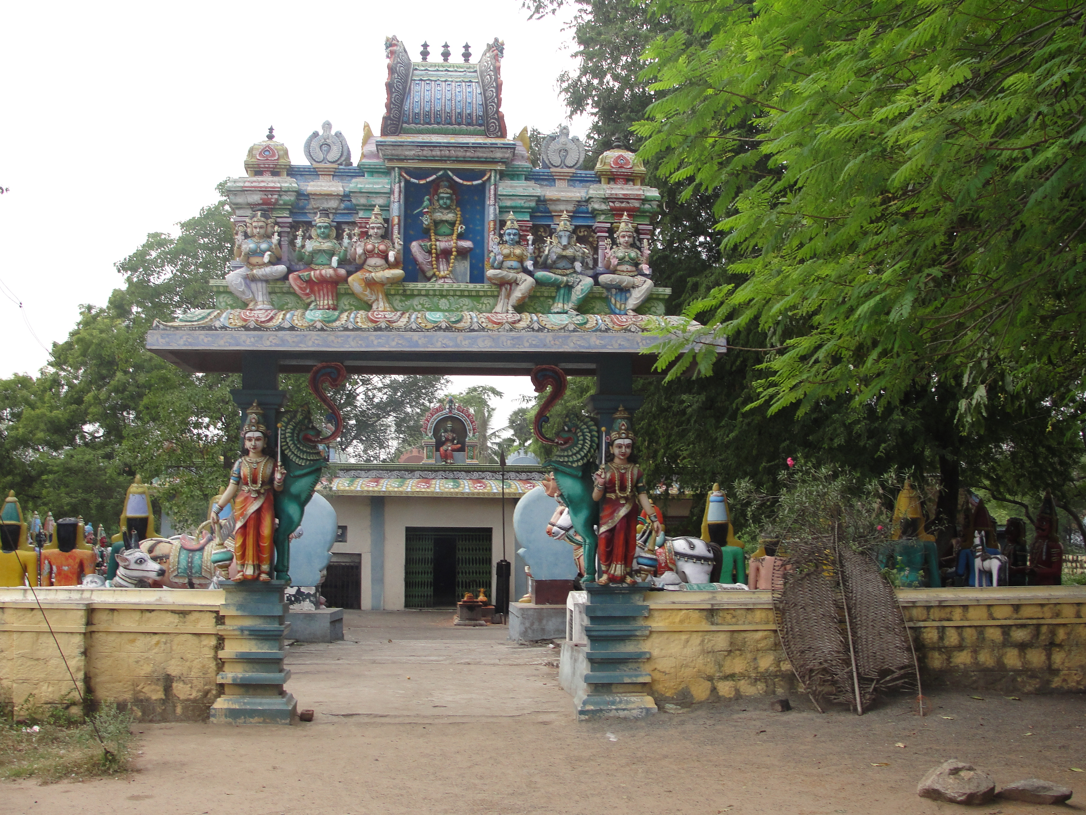 A view of PachchiyammaaL Temple Manguppai Panchayat, Salem District, Tamil Nadu, India.